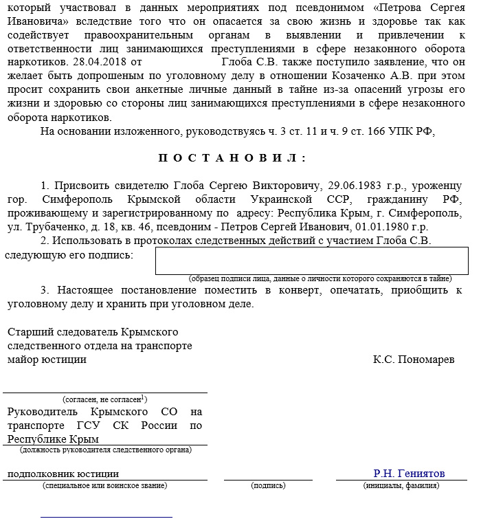 Publication license